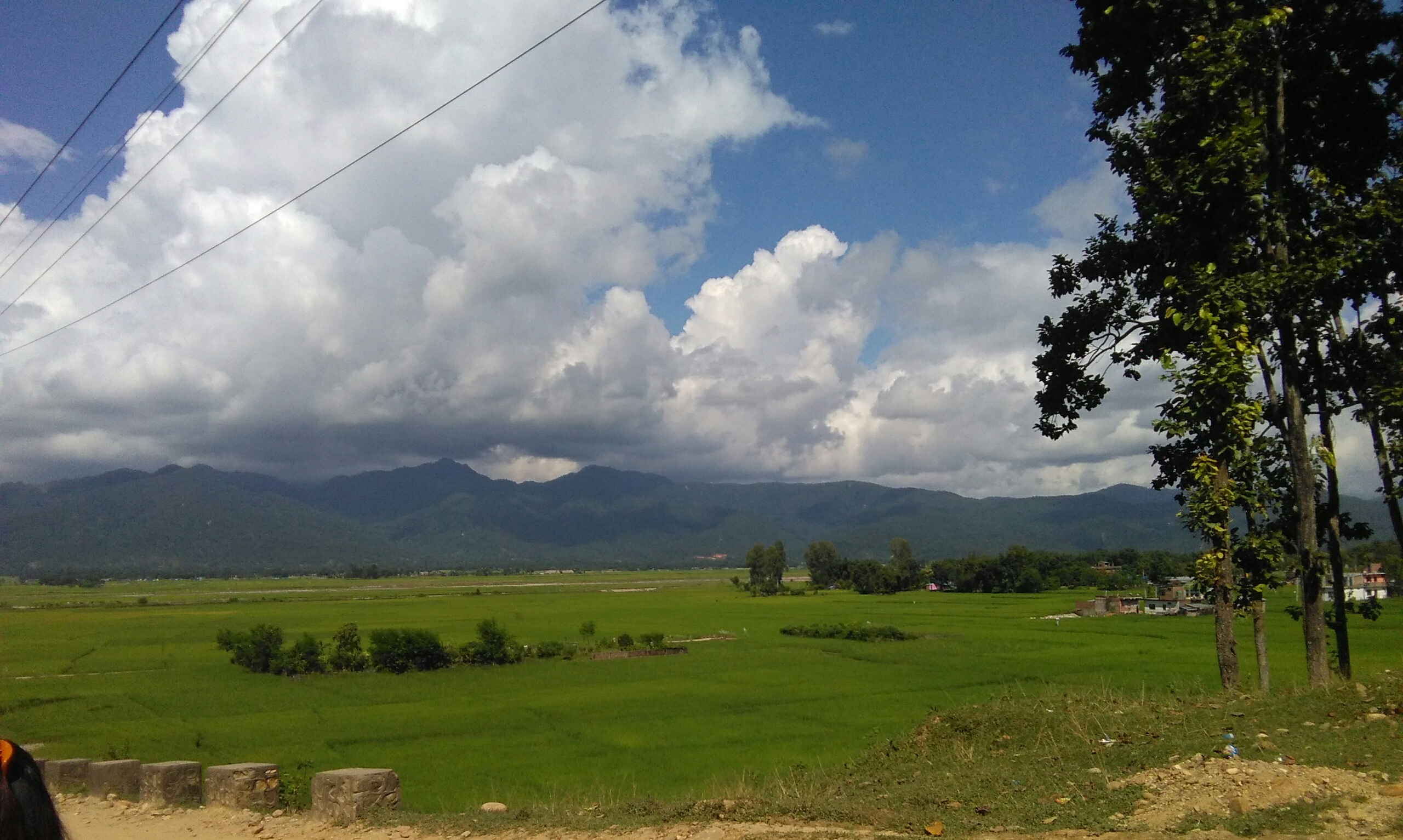 A view of Mahabharat hills and paddy fields at Udayapur District from Jaljale